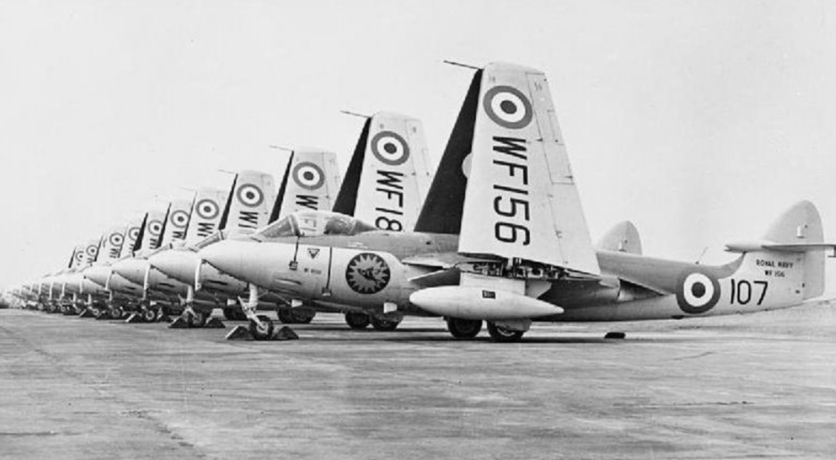 Royal Navy Hawker Sea Hawk F.1 fighters of 898 Naval Air Squadron at Royal Naval Air Station Brawdy, Pembrokeshire (UK), in 1954.